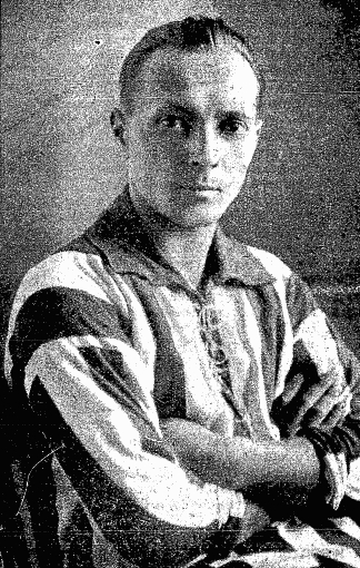 Polish associate footballer Adam Kogut